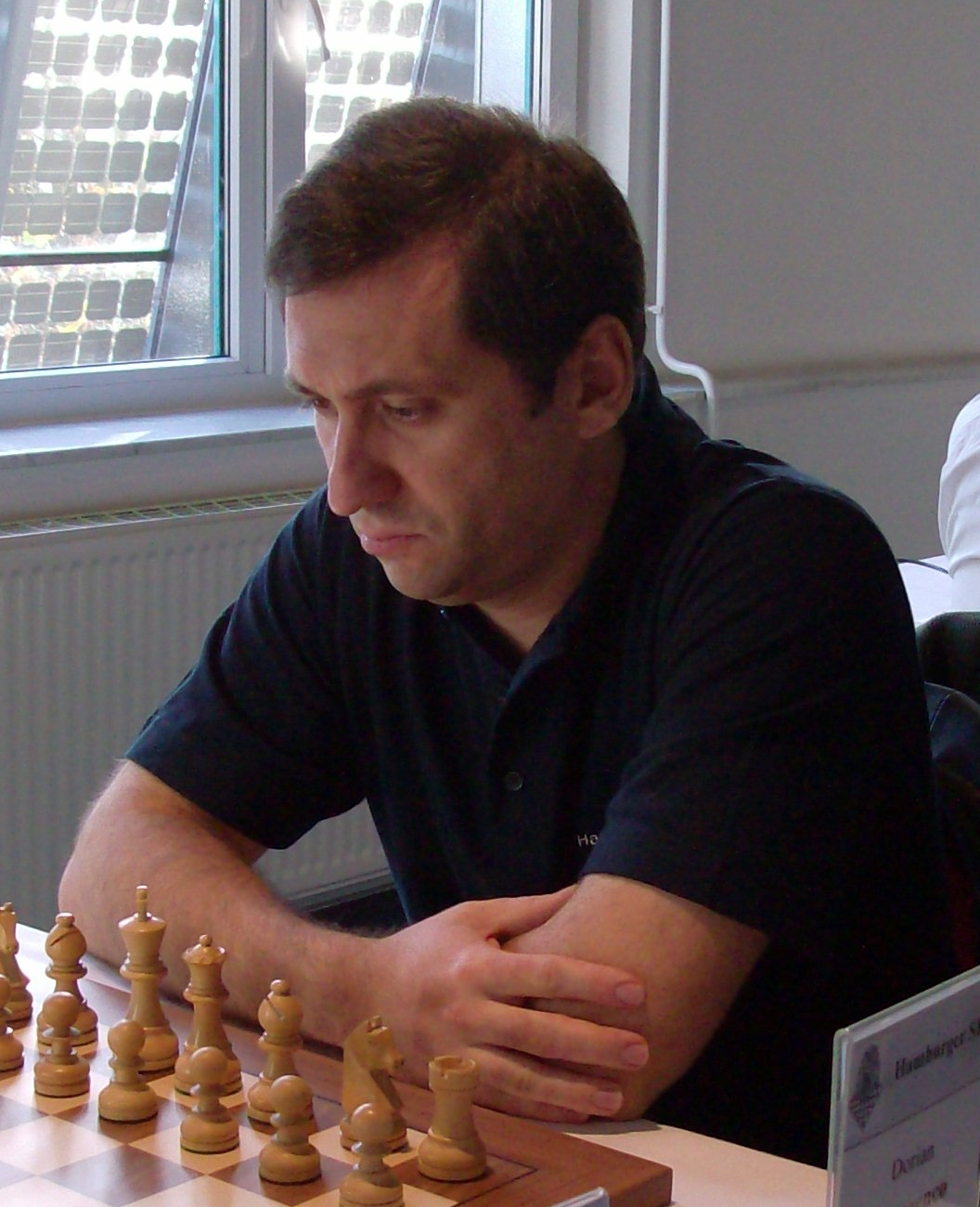 Dorian Rogozenco, chess grandmaster from Moldova